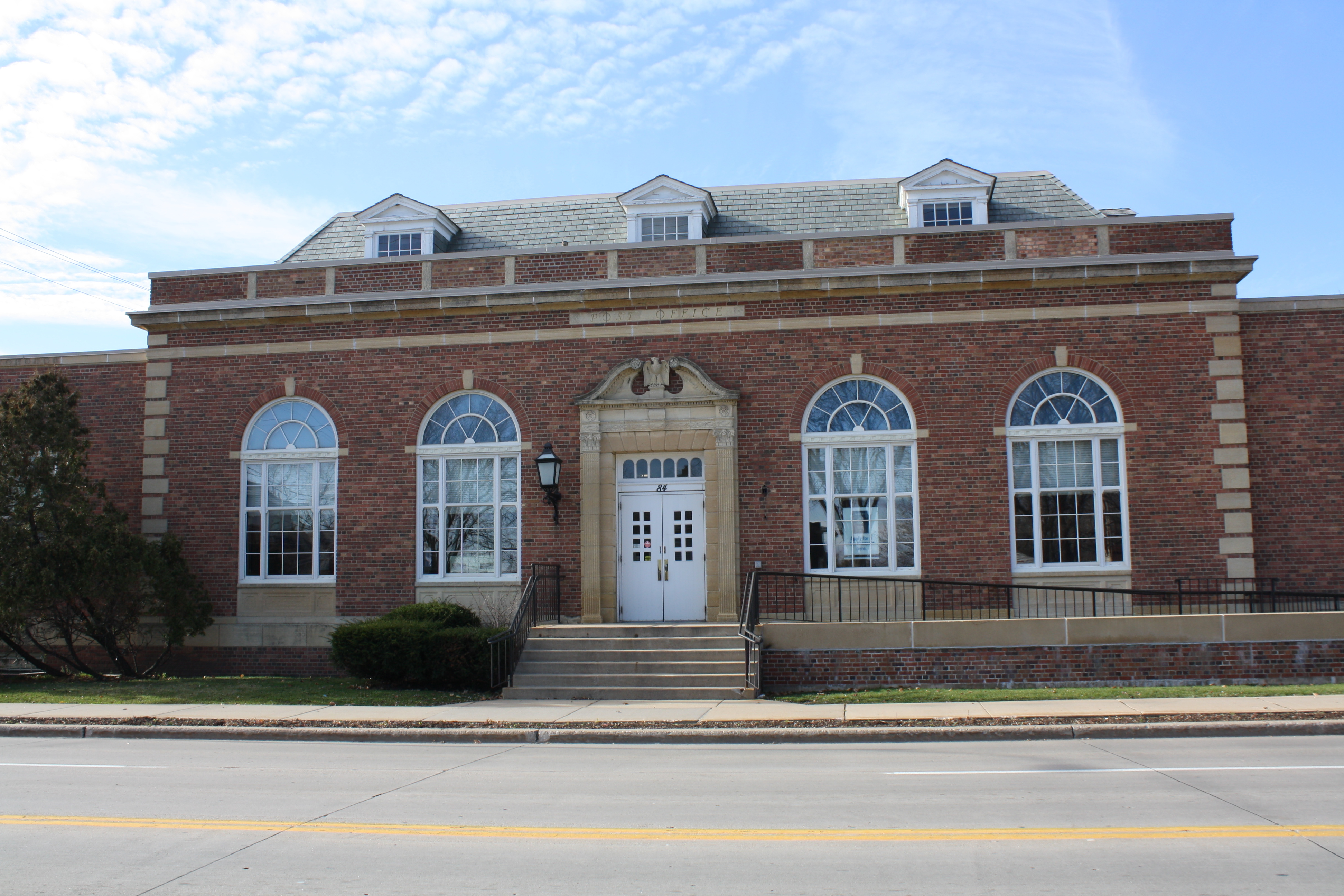 Looking west at the post office for Menasha, Wisconsin. It is listed on the National Register of Historic Places.